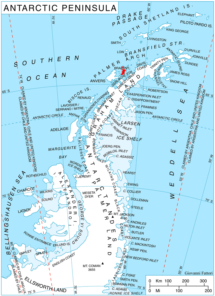 Location of Brabant Island, Antarctica.